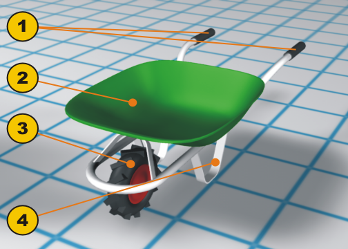 Wheelbarrow illustration